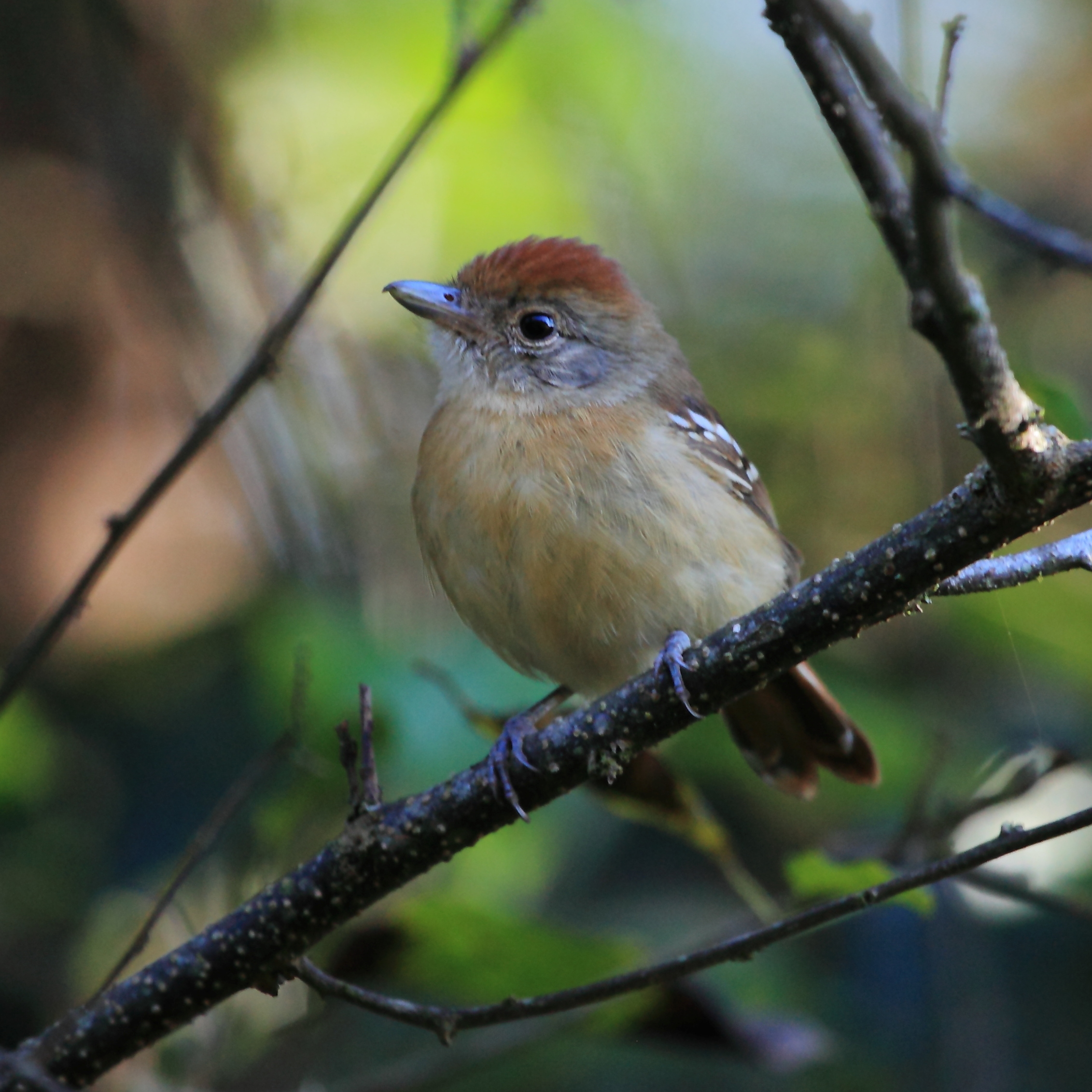 Planalto Slaty-Antshrike (female) at Dourado - SP - Brazil